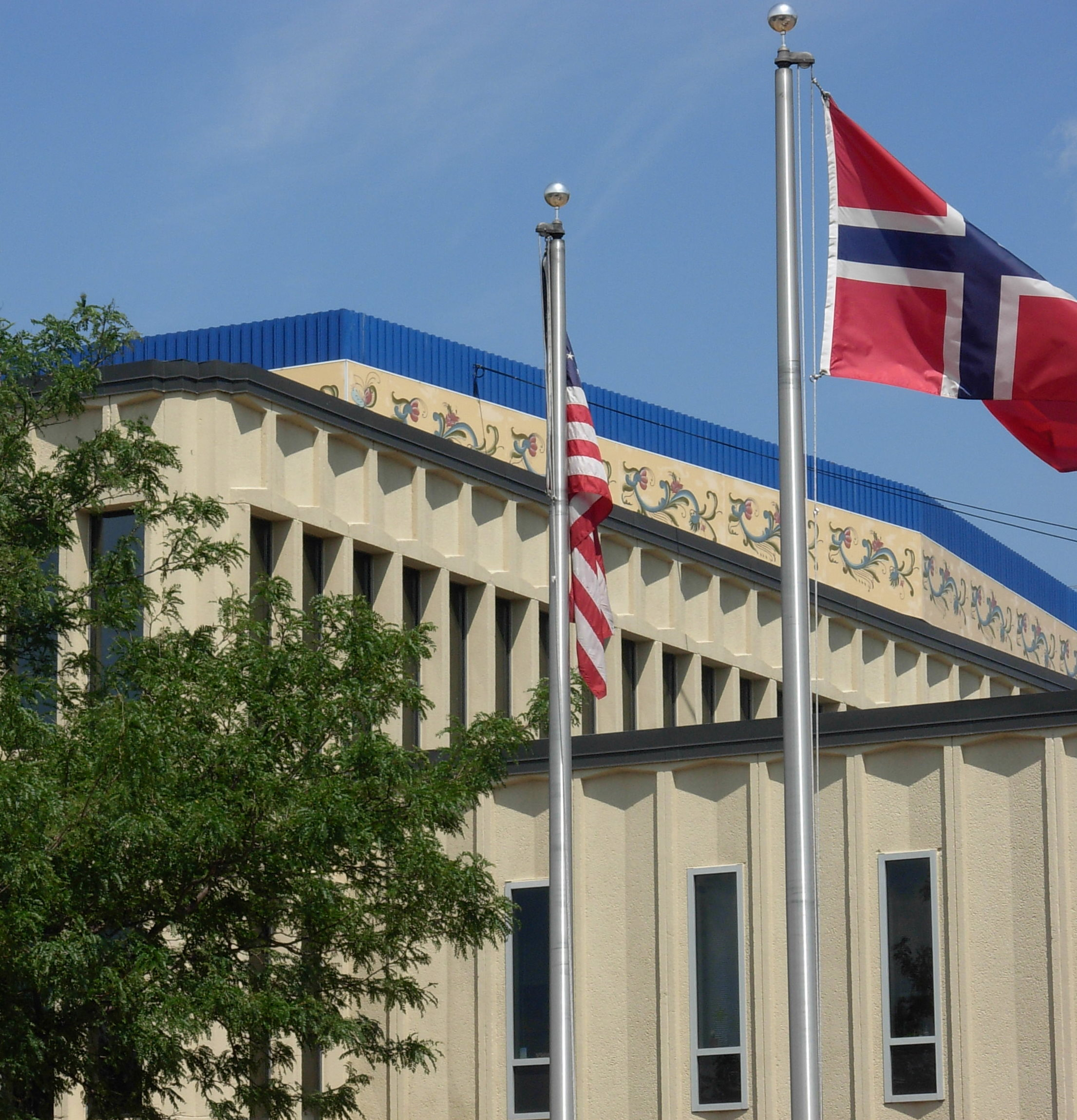 Flags of the United States and Norway at the Sons of Norway Building on Lake Street in Minneapolis, Minnesota